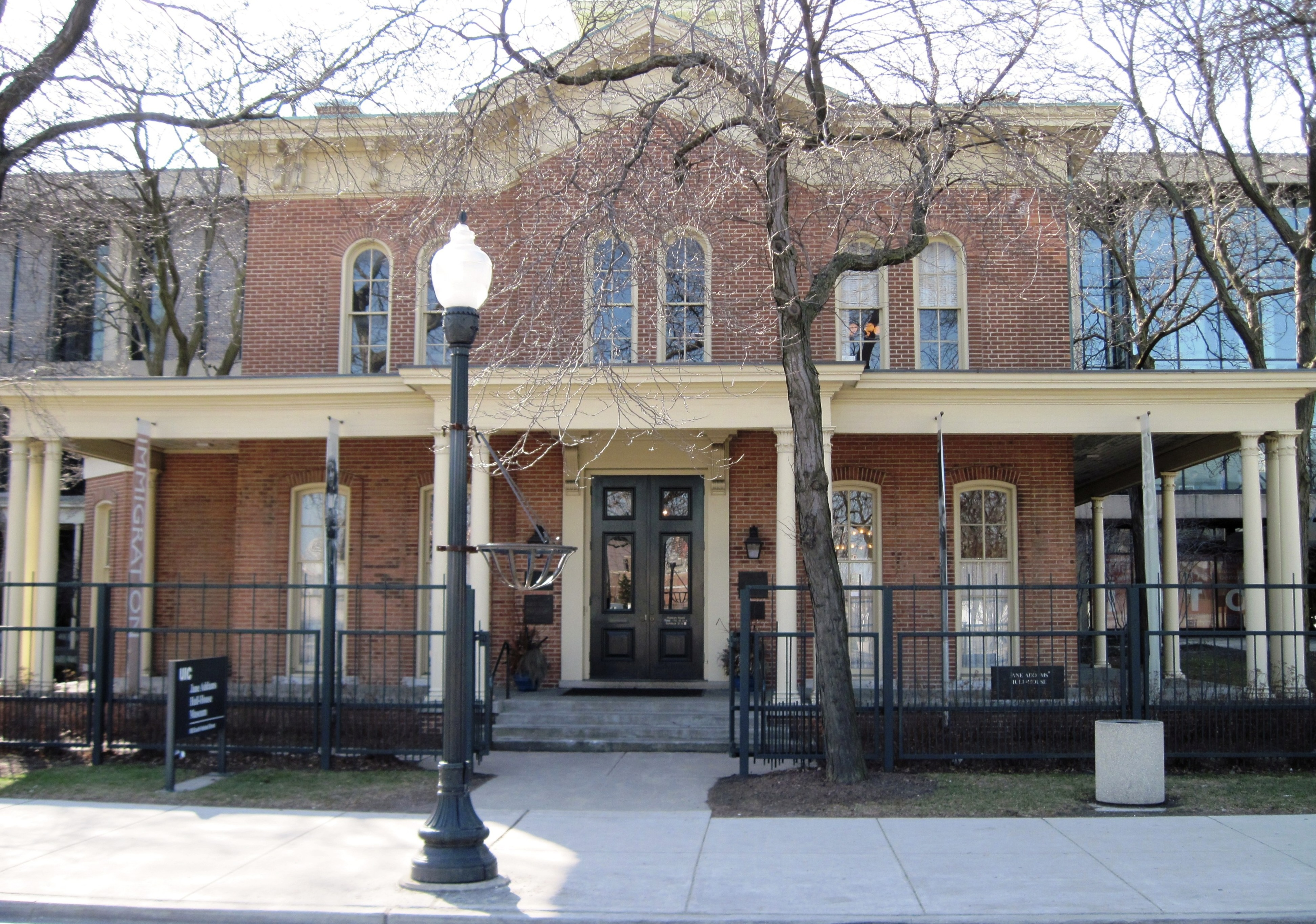 Hull House at the University of Illinois at Chicago